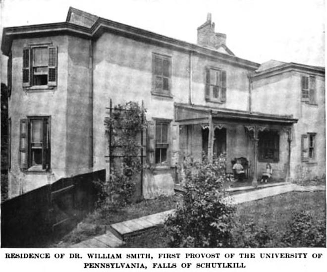 Photograph of the Residence of Dr William Smith, first provost of the University of Pennsylvania, circa 1919